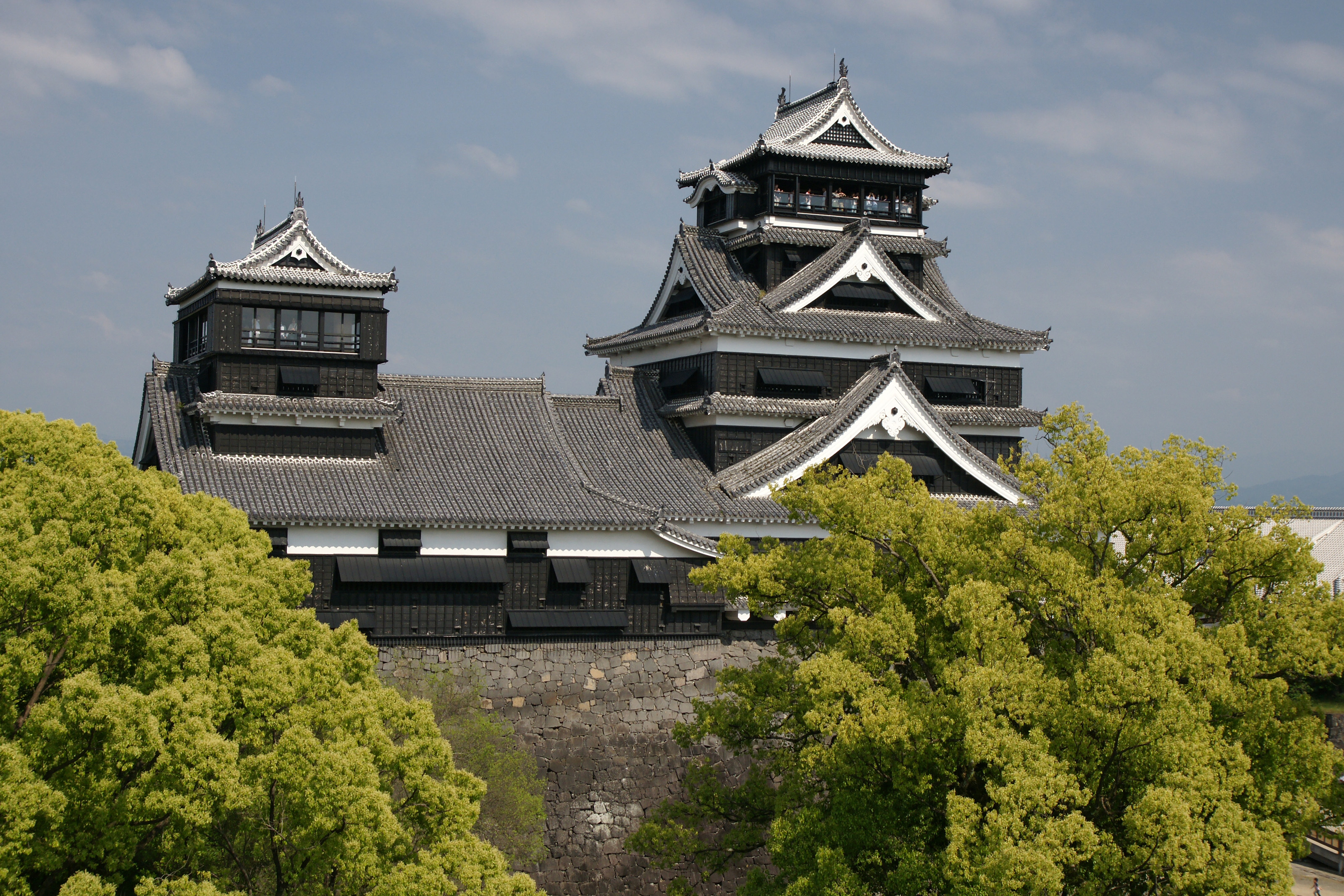 Kumamoto Castle, Kumamoto, Kumamoto prefecture, Japan